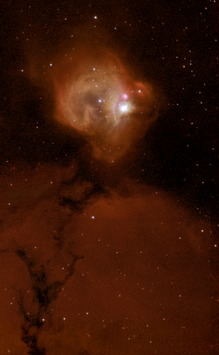 rotate, crop